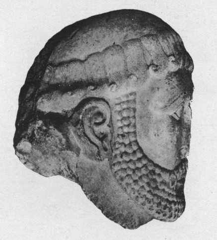 Head discovered at Meaux, said to be from the statue representing Ogier/Othgerius at the Abbey of St. Faro